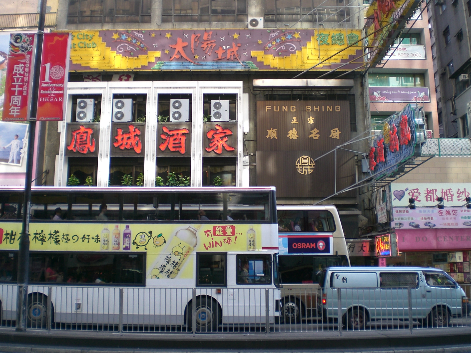 Yau Tsim Mong District, Kowloon 九龍油尖旺區